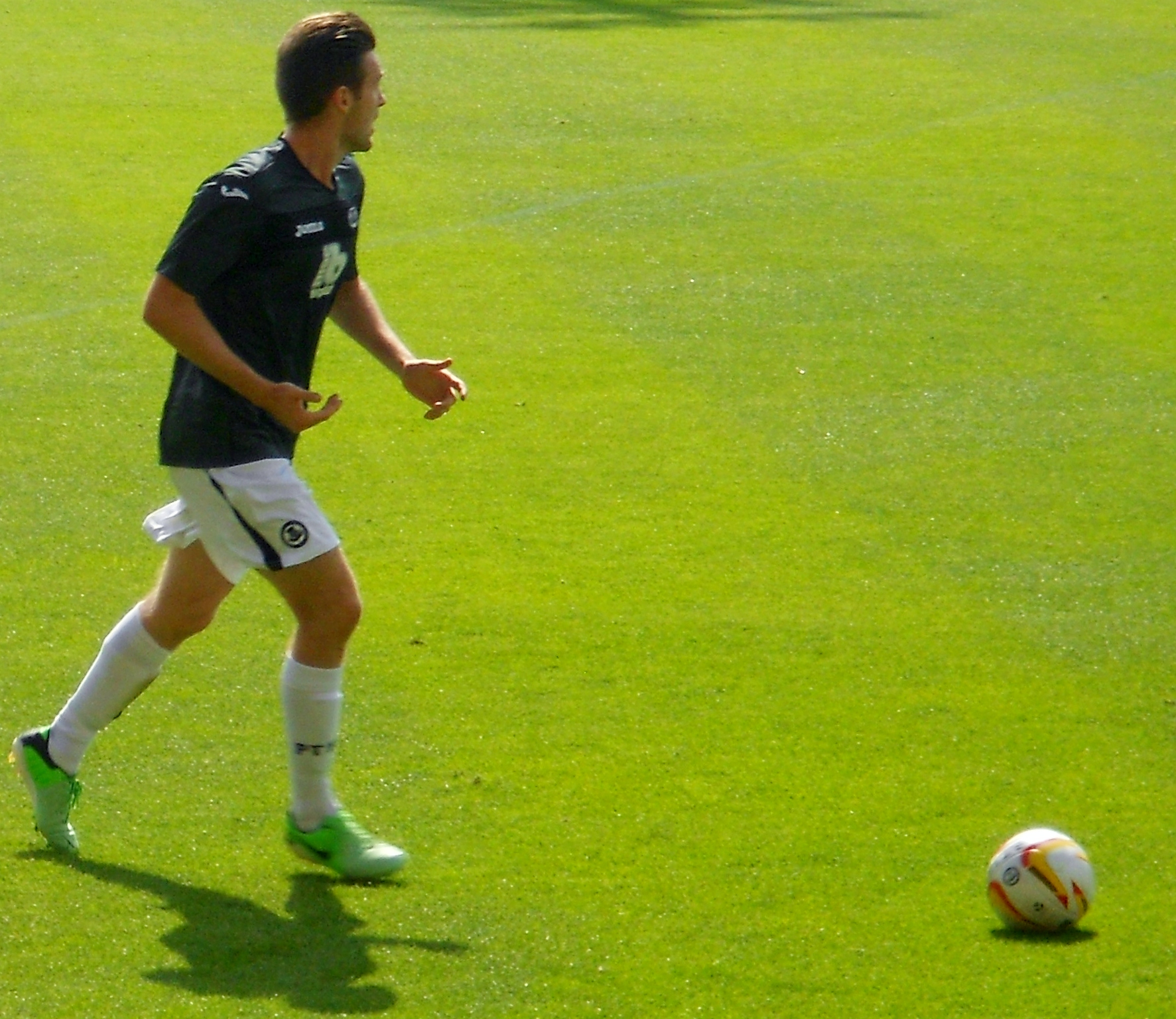 Stepehn O'Donnell footballer.